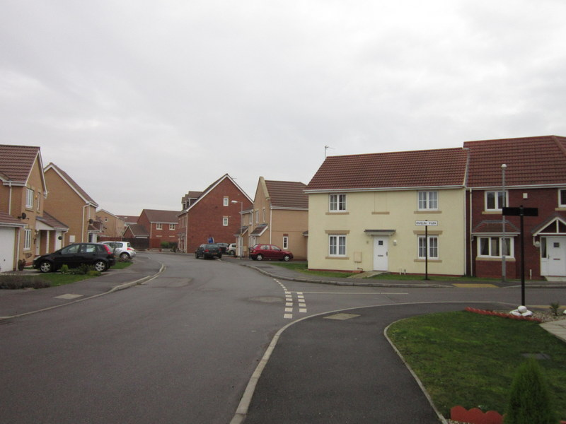 Halecroft Park at Rivelin Park, Kingswood, Hull, East Riding of Yorkshire, England.